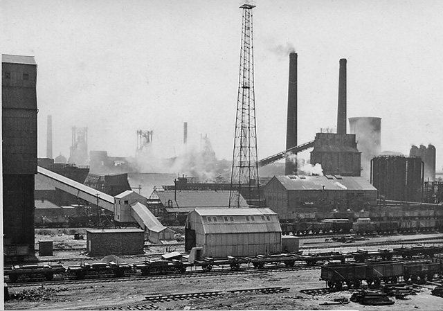 Lancashire Steel Corporation plant, Irlam. View southward, from main Cheshire Lines railway (Manchester Central - Liverpool Central), between Irlam and Cadishead - a typical industrial scene of the time.